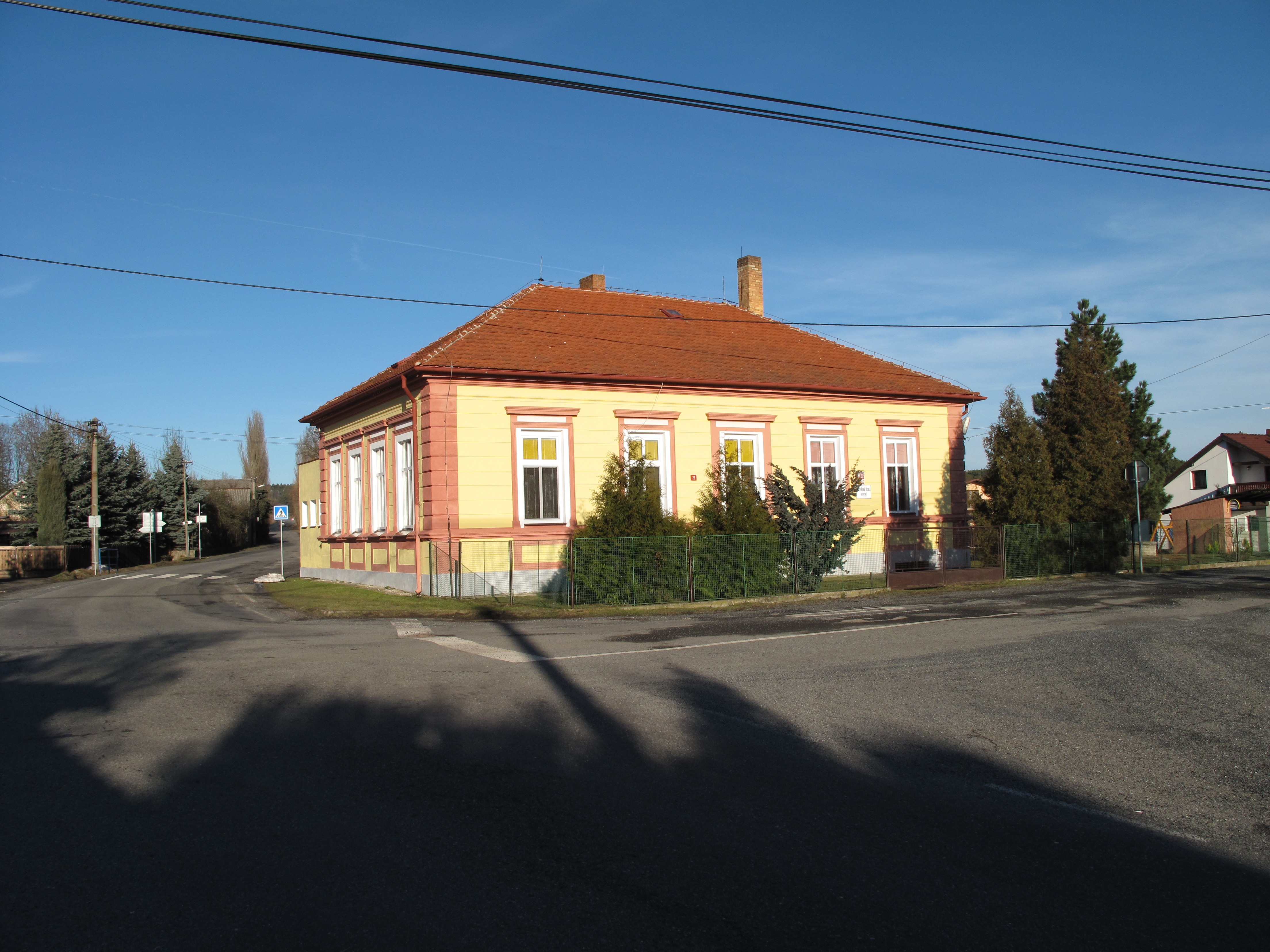 Kindergarten in Korkyně village, Příbram District, Czech Republic.